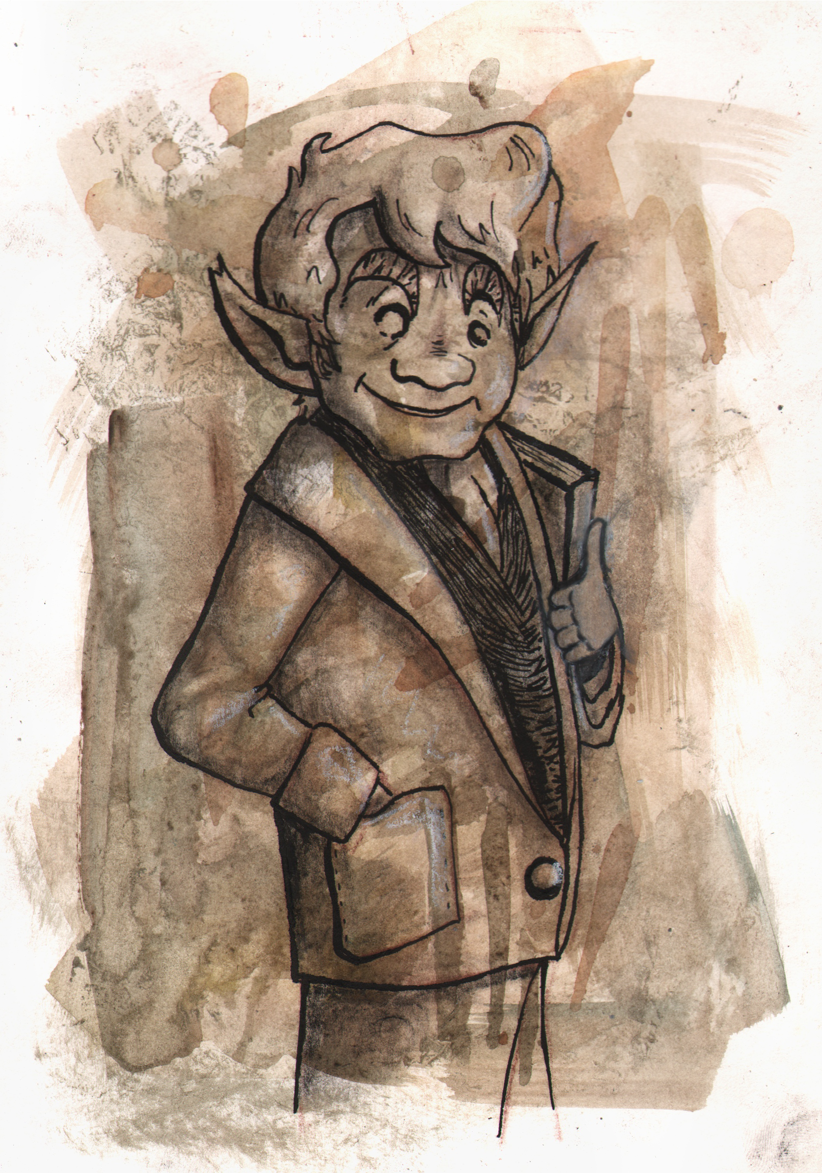 Illustration of Bilbo Baggins, one of the characters in the Lord of the rings.